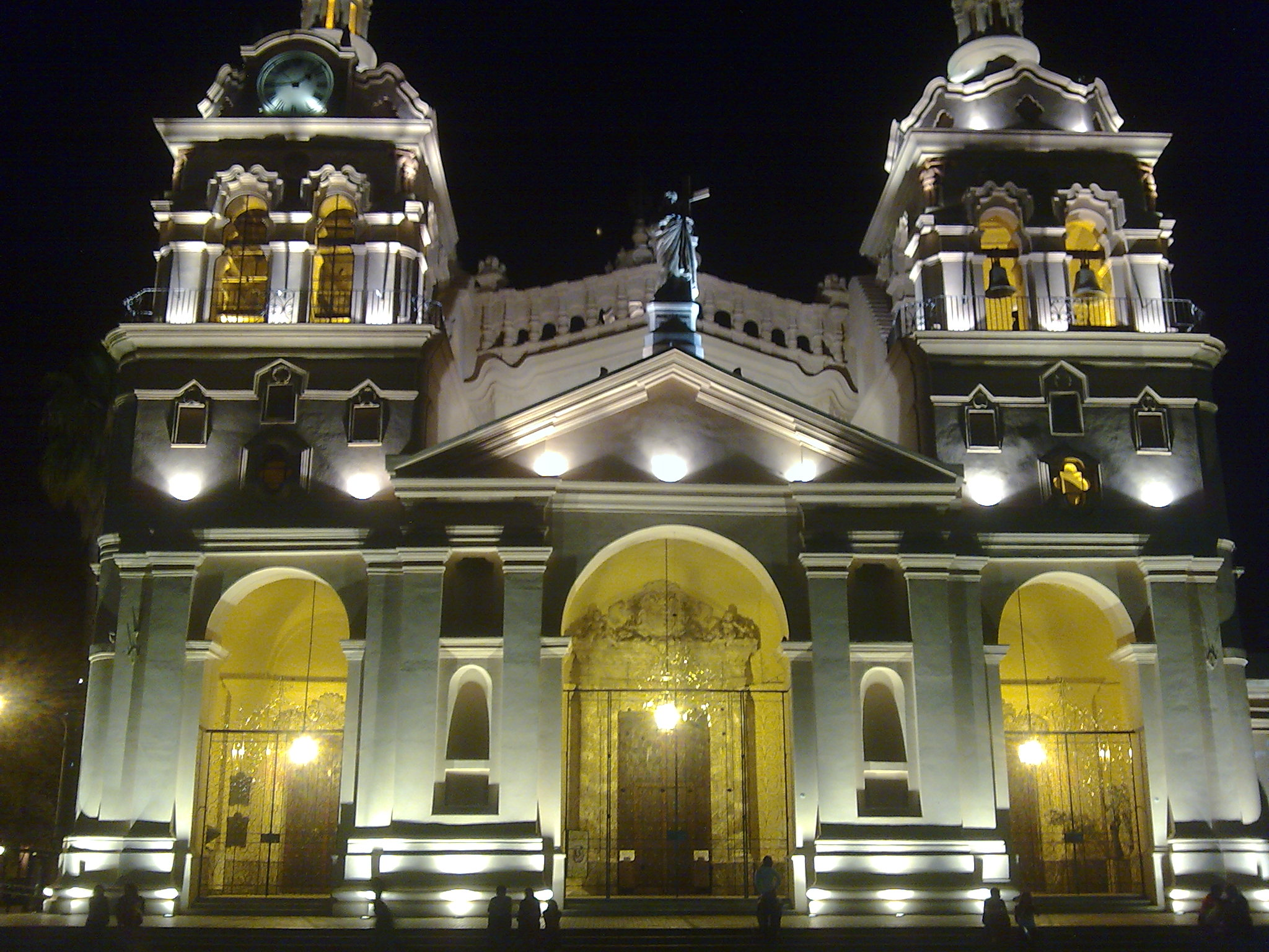 Cordoba, Argentina cathedral.